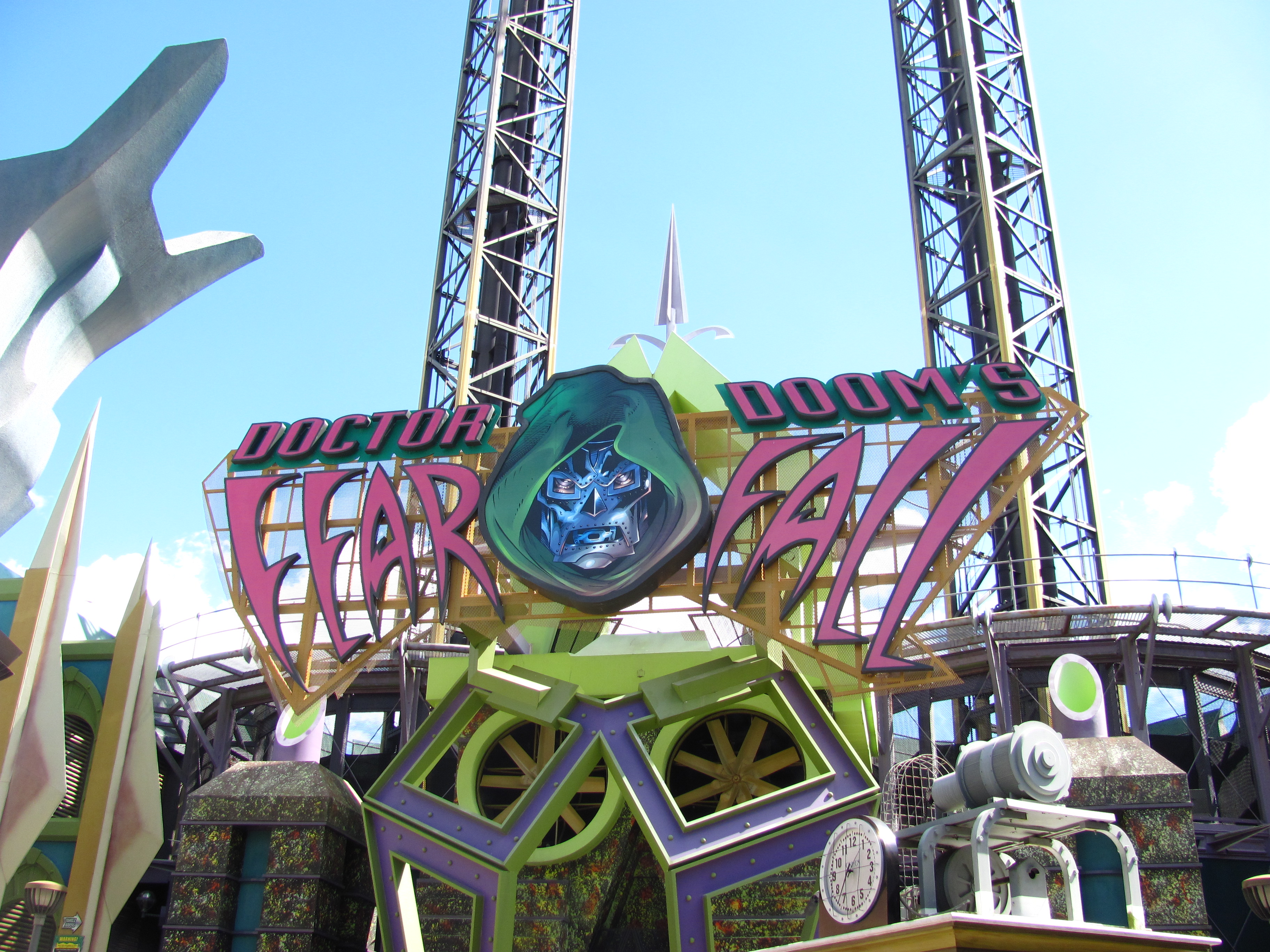 Dr. Doom's Fear Fall